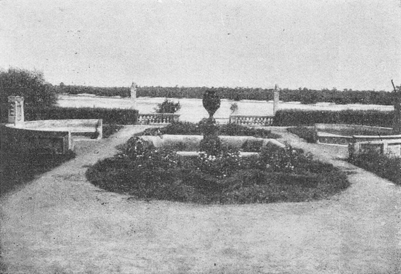 Park in Naroŭla